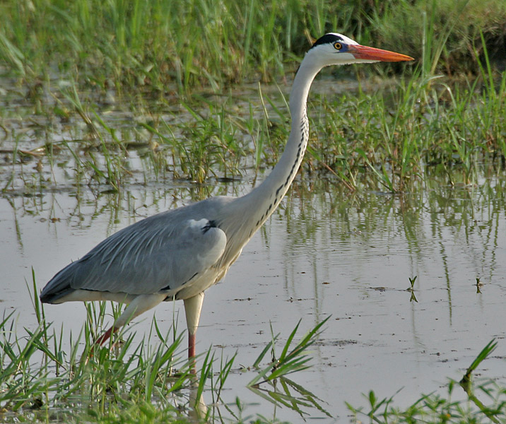 Grey Heron Ardea cinerea in Kolleru, Andhra Pradesh, India.